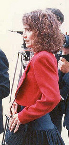 Jessica Harper on the red carpet at the 62nd Annual Academy Awards, 3/26/90